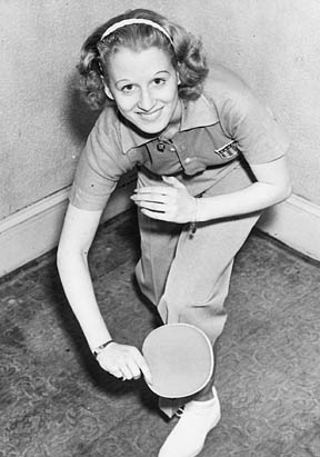 Publicity shot of Ruth Aarons as the 1936 World Women's Singles Championship for "Time" Magazine.